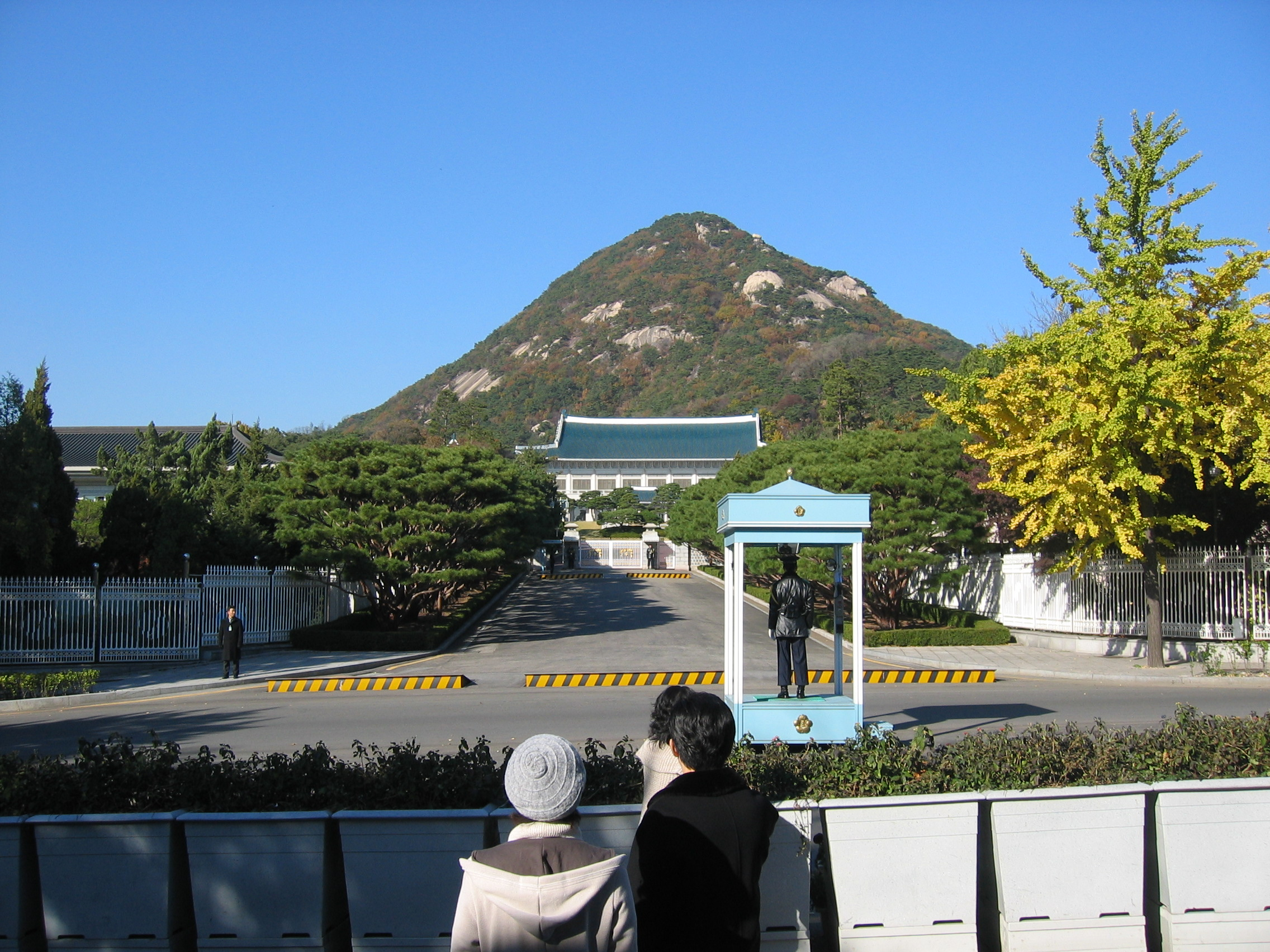 “Cheongwadae” or Blue House in Seoul. Home of the Korean President